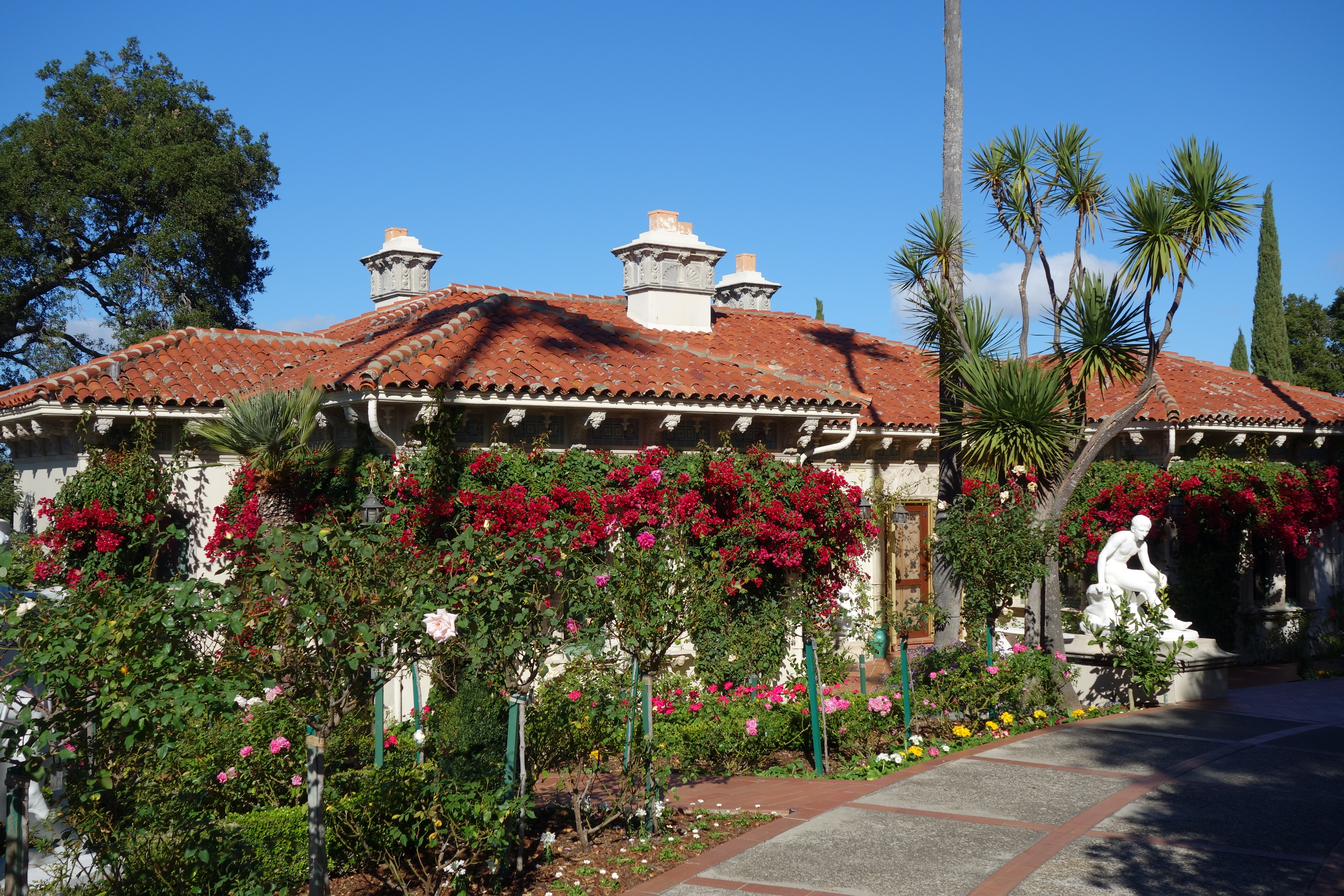 Guest house at Hearst Castle, San Simeon, California, USA. Photograph was permitted without restriction in and around the castle. All artwork is old enough so that it is in the public domain.